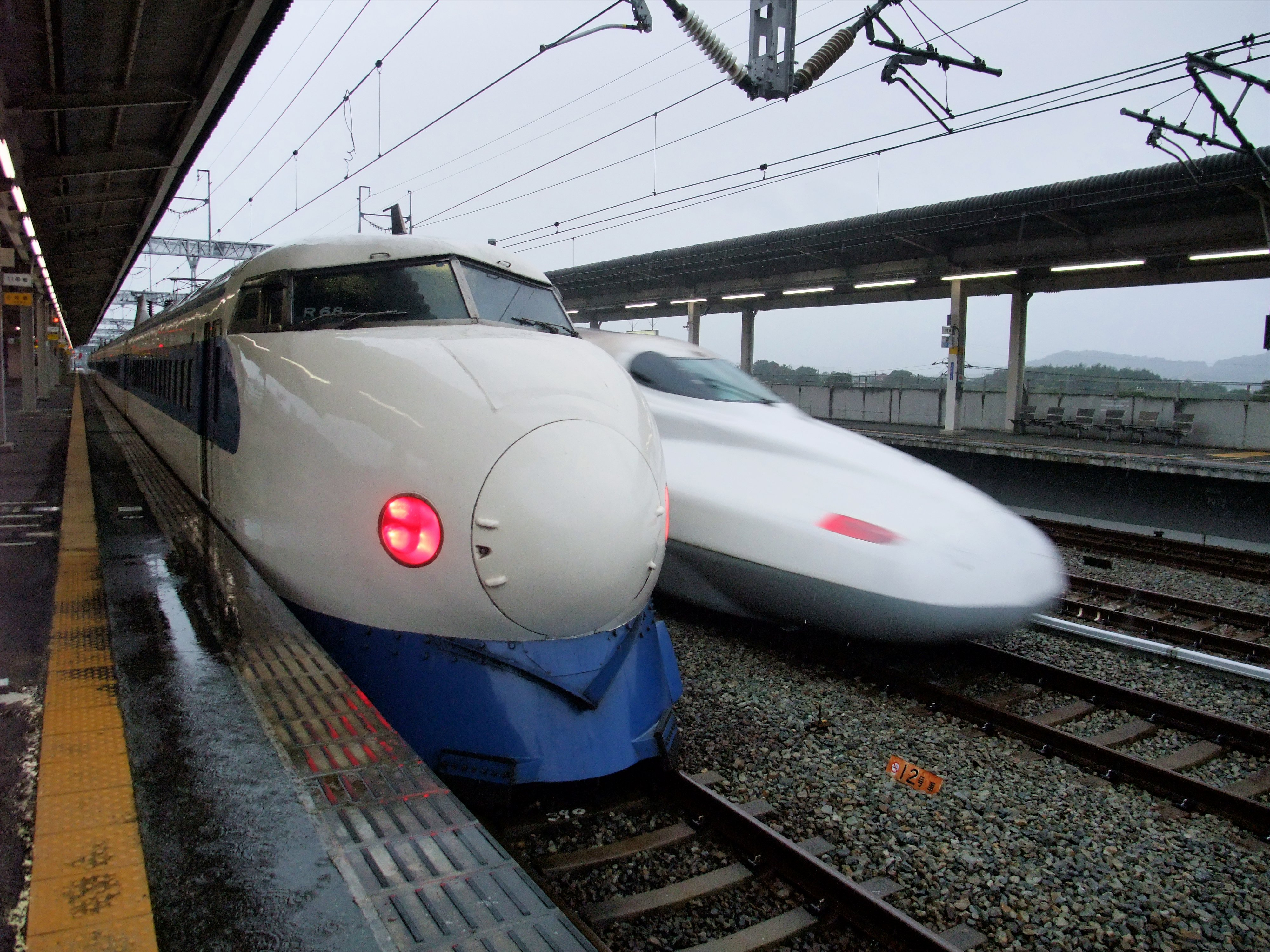 Shinkansen series 0 and series N700